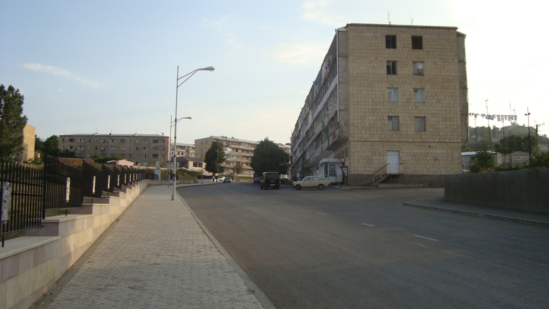 A main street in the city. Shushi, Republic of Mountainous Karabakh (Artsakh).